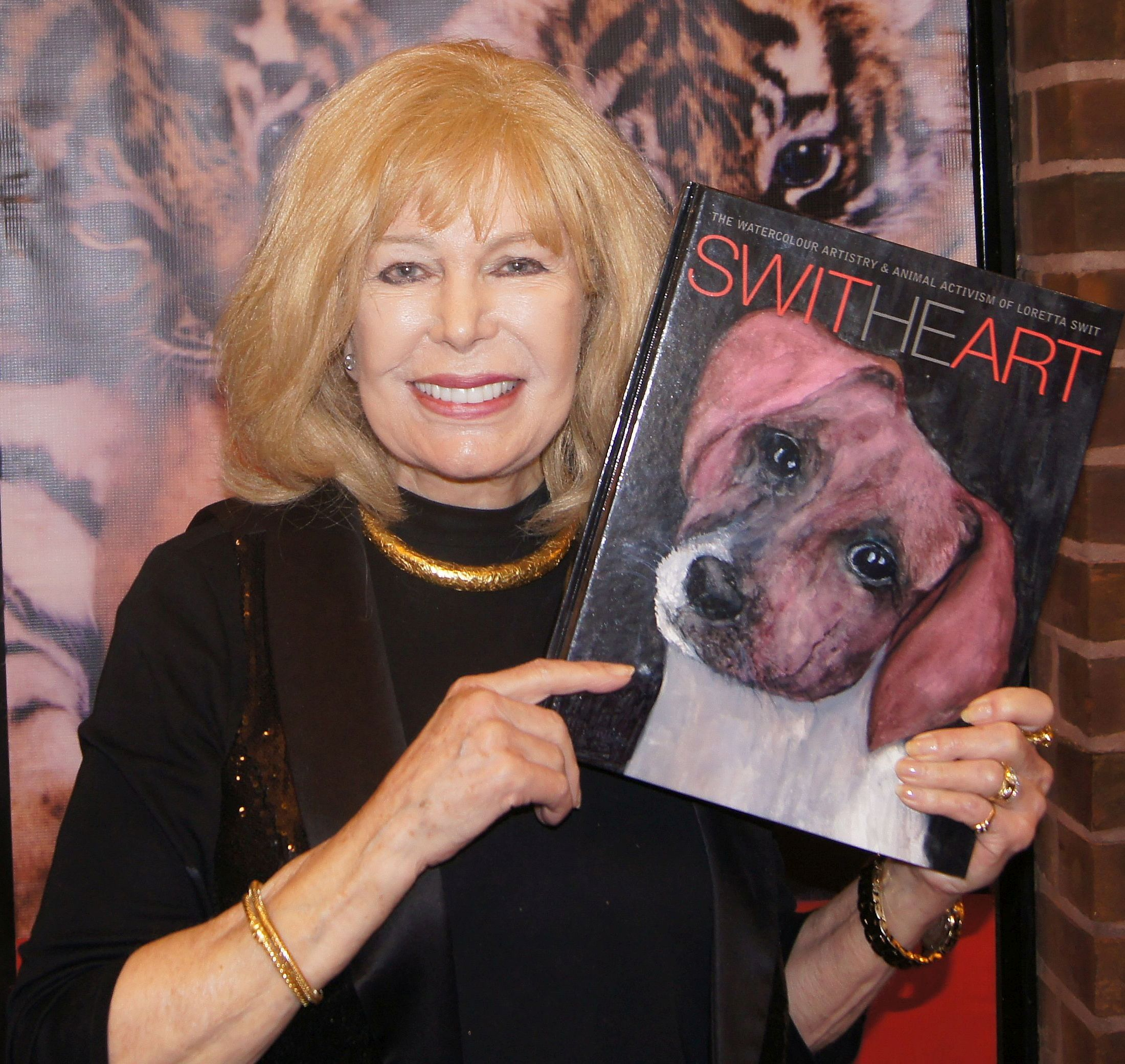 Mid Atlantic Nostalgia conv Hunt Valley M.D. Sept 2019